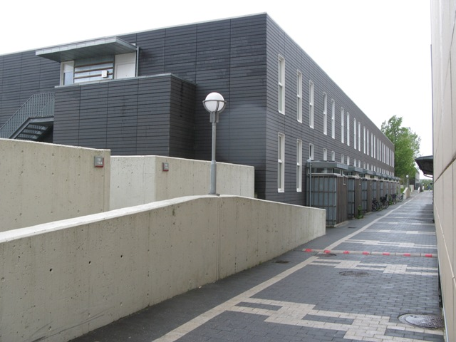 Picture of a townhouse in bispehaven